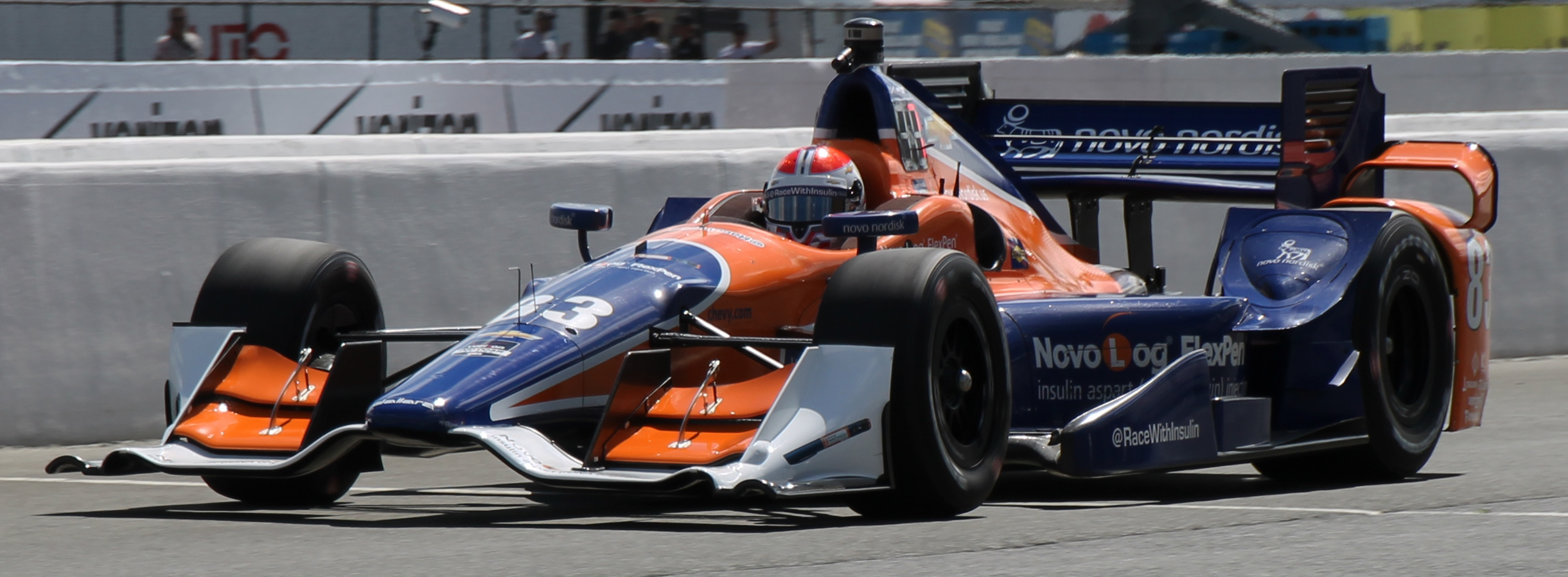 Charlie Kimball at the 2015 GoPro Grand Prix of Sonoma